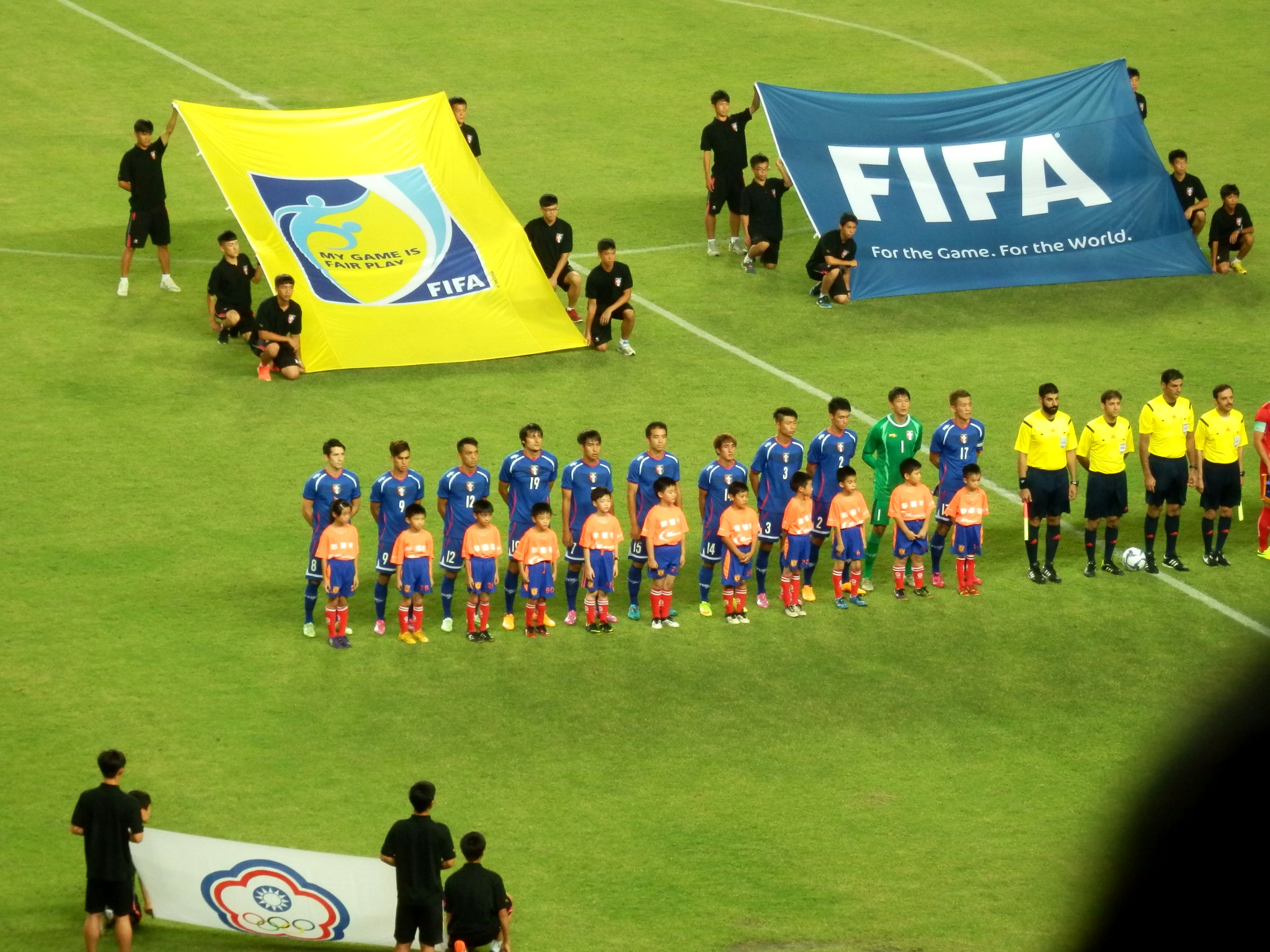 Chinese Taipei national football team against Thailand on June 16, 2015 in 2018 FIFA World Cup qualification